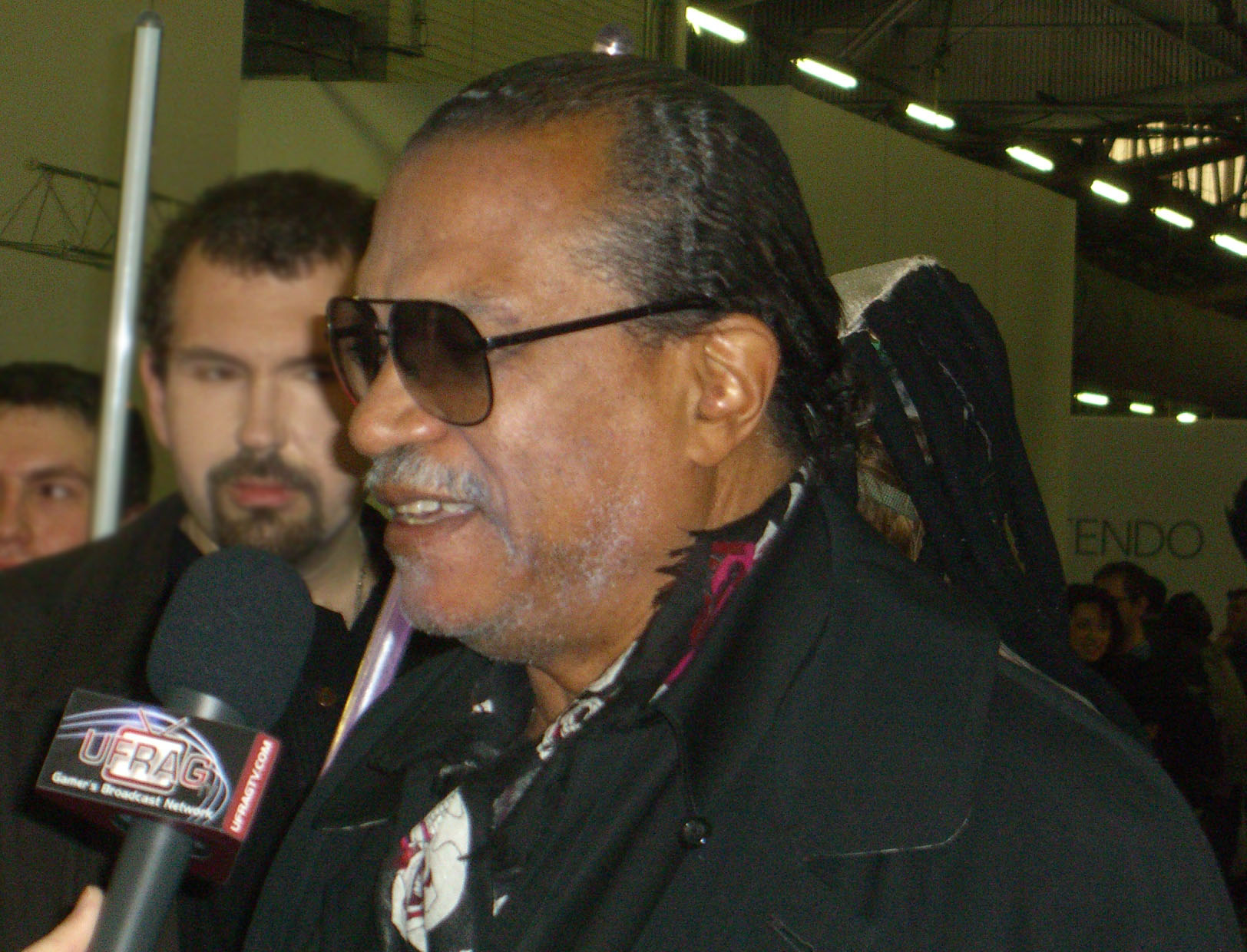 Actor Billy Dee Williams at the Big Apple Convention in Manhattan. Photographed by Luigi Novi. This photo may only be used if the photographer is properly credited. (See Licensing information below.)